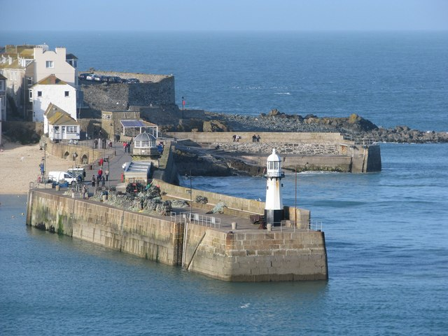 Modern Harbour wall with Smeaton's Pier beyond